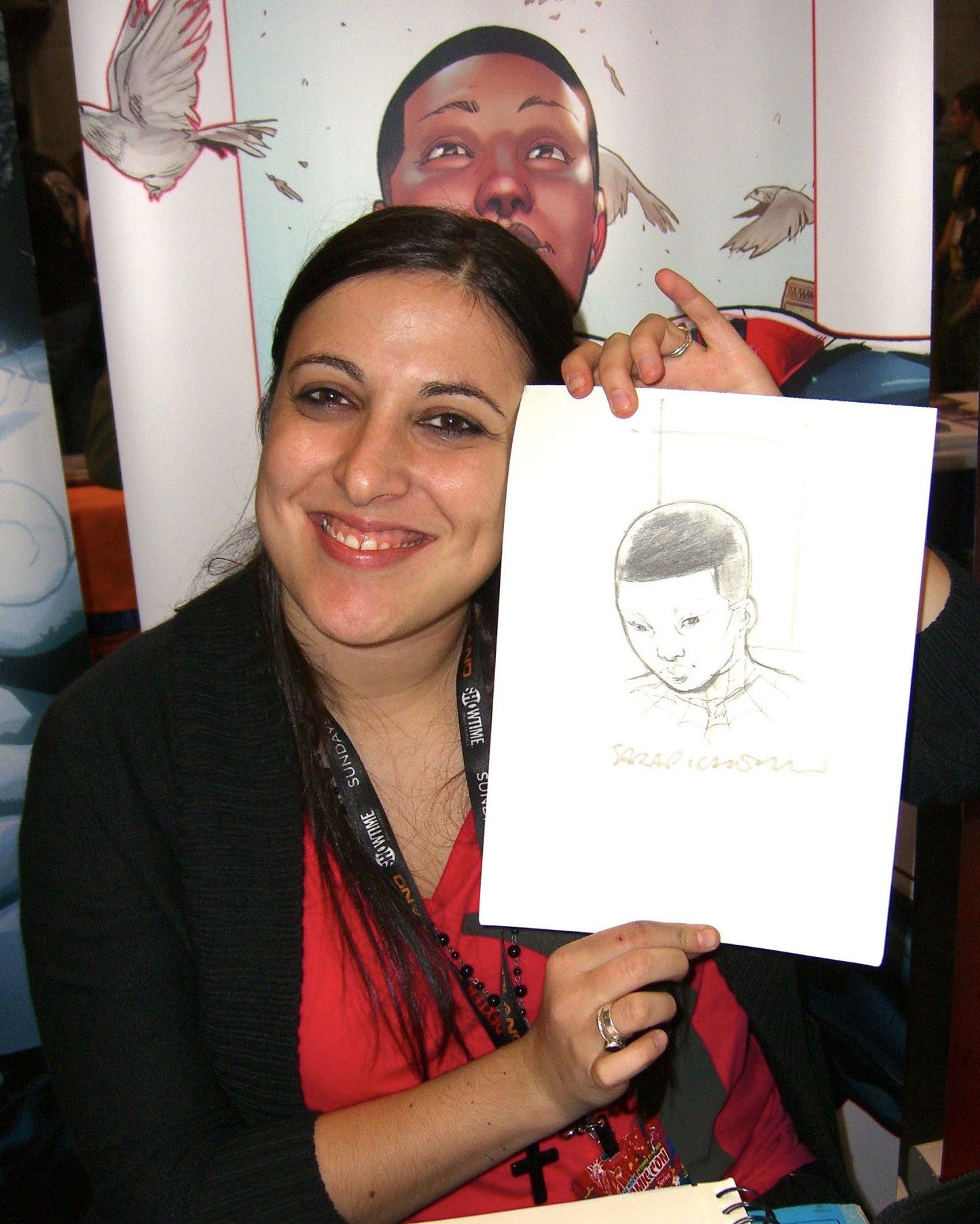 Comics creator Sara Pichelli holding up a sketch of Miles Morales, the second Ultimate Spider-Man, at the New York Comic Con, October 15, 2011. This photo was created by Luigi Novi. It is not in the public domain, and use of this file outside of the licensing terms is a copyright violation.